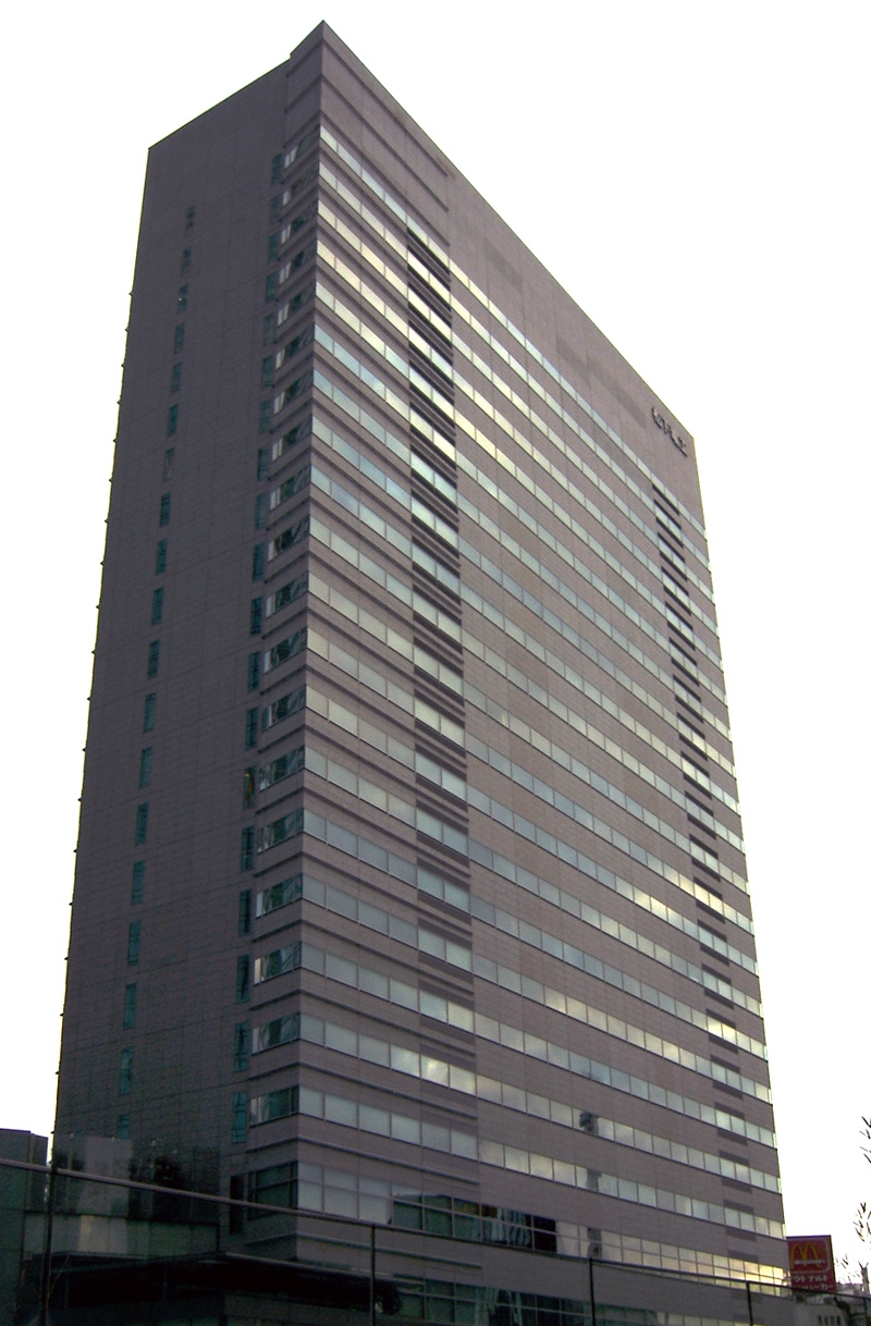 Matsushita_Electric_Works_Building Tokyo Japan